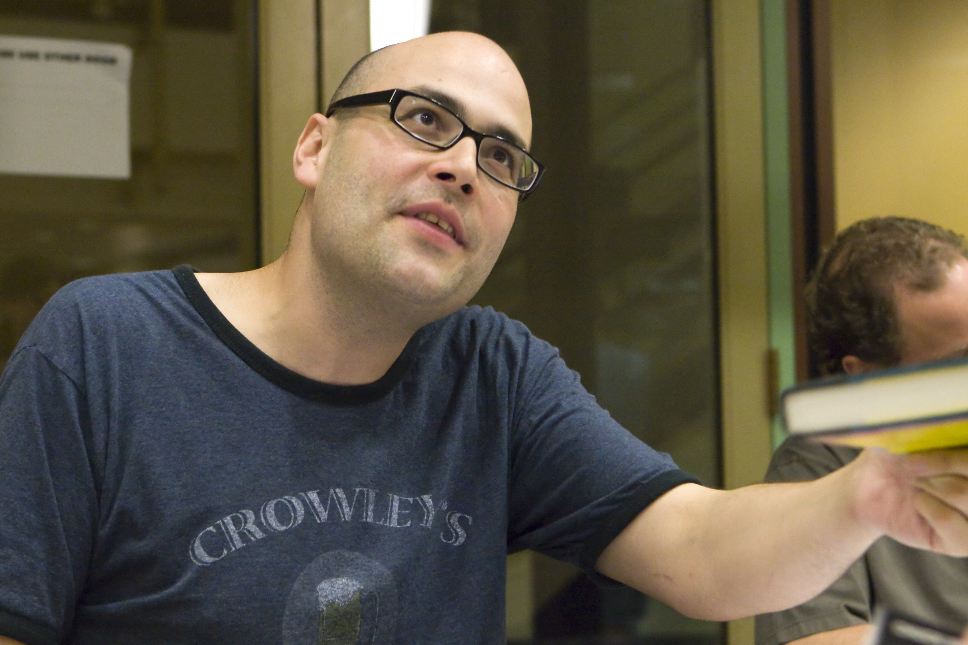 Nathan Rabin signs copies of his book The Big Rewind after a panel discussion about writing and music.